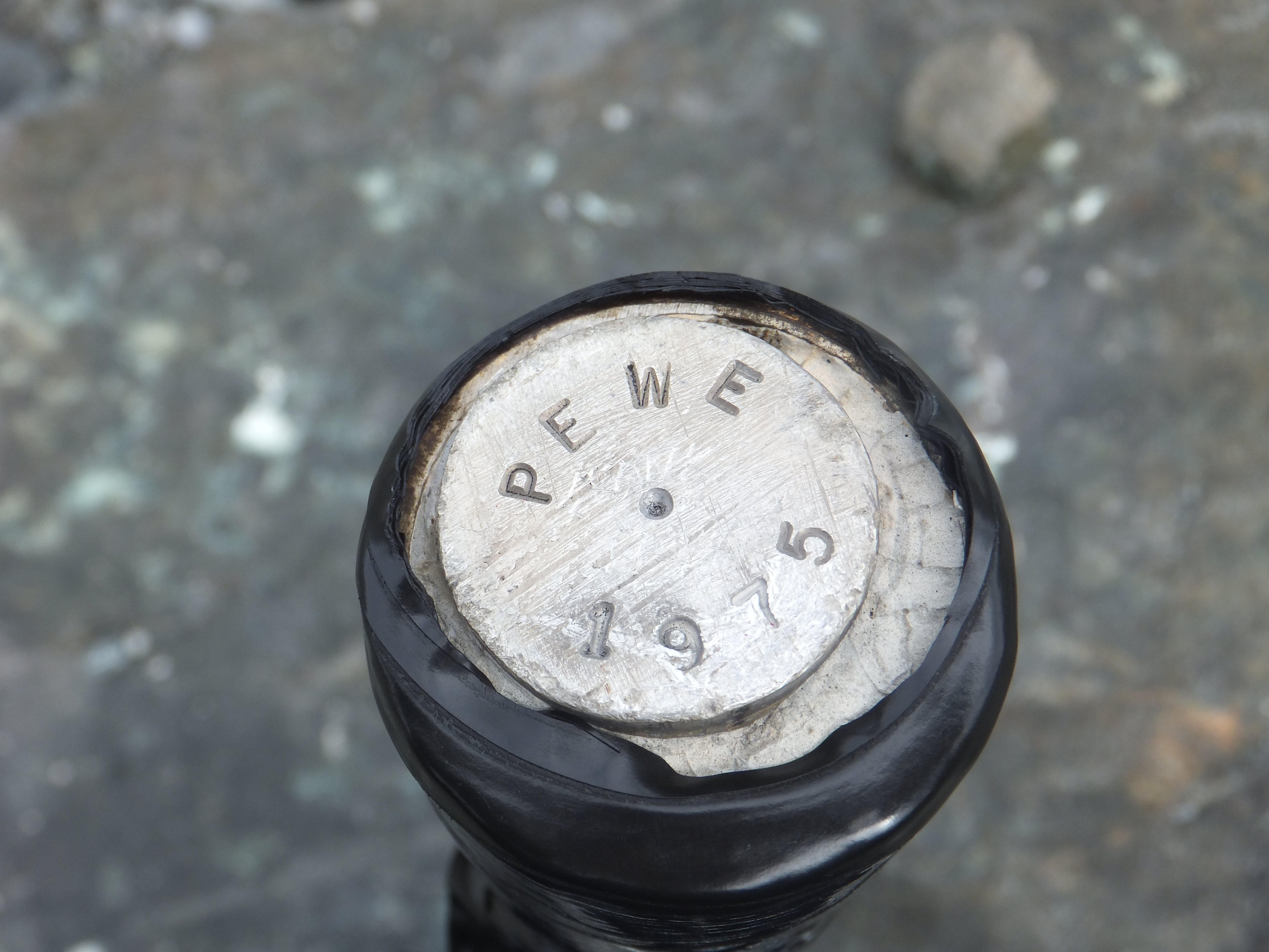 Marker labeled PEWE 1975 located near Gulkana Glacier in Alaska, USA